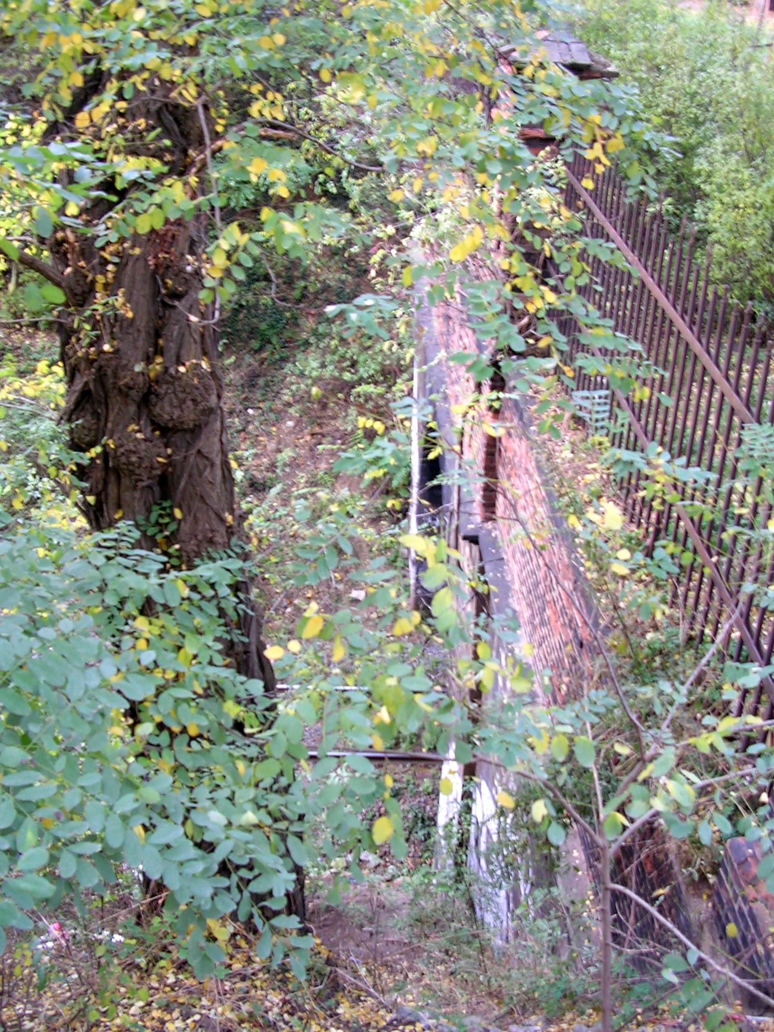 Bubeneč, Prague. - Google Maps - Google Earth